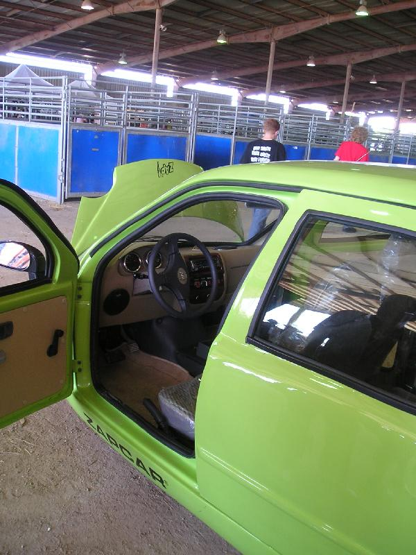 A ZapCar Xebra, photographed at the Maker Faire, Austin, TX. 2007.